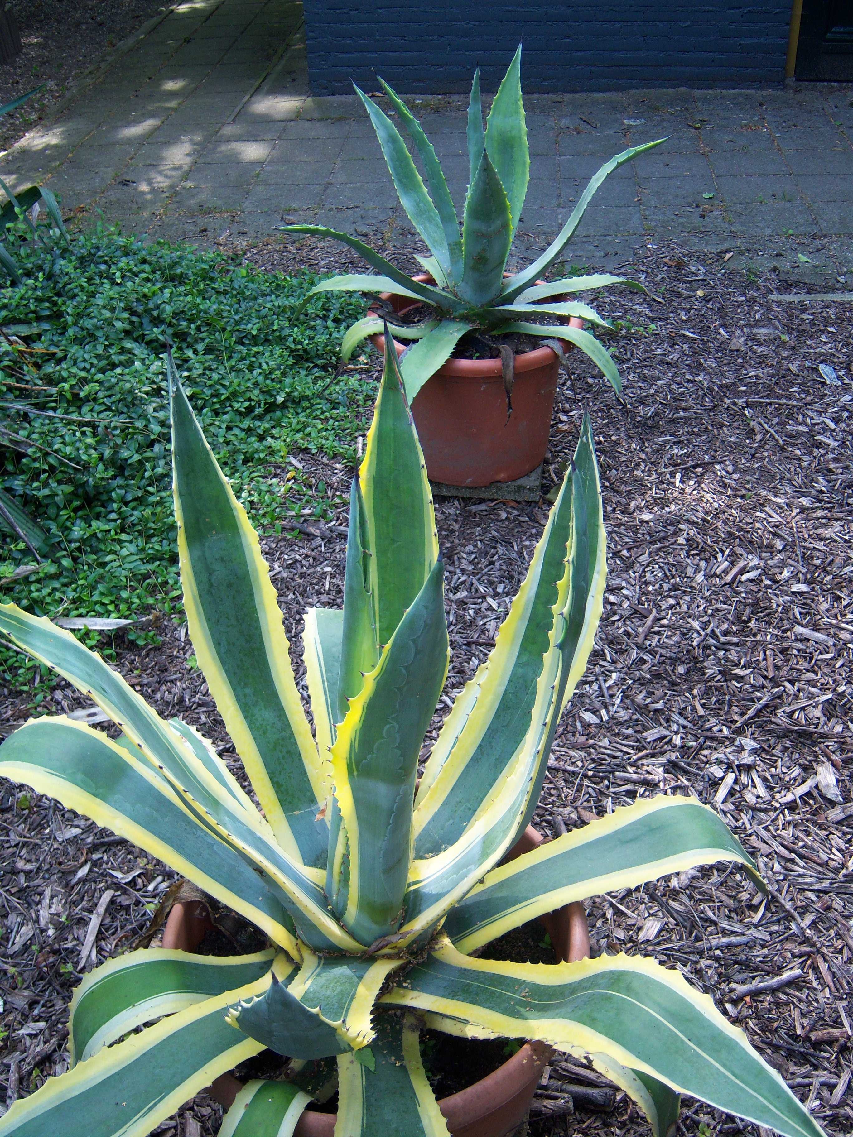 Agave Americana in the Netherlands